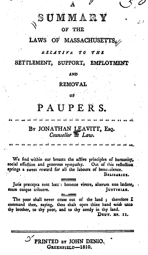 A Summary of the Laws of Massachusetts, Relative to Settlement, Support, Employment and Removal of Paupers, by Jonathan Leavitt, Esq., Counsellor in Law, Printed by John Grenio, Greenfield, 1810